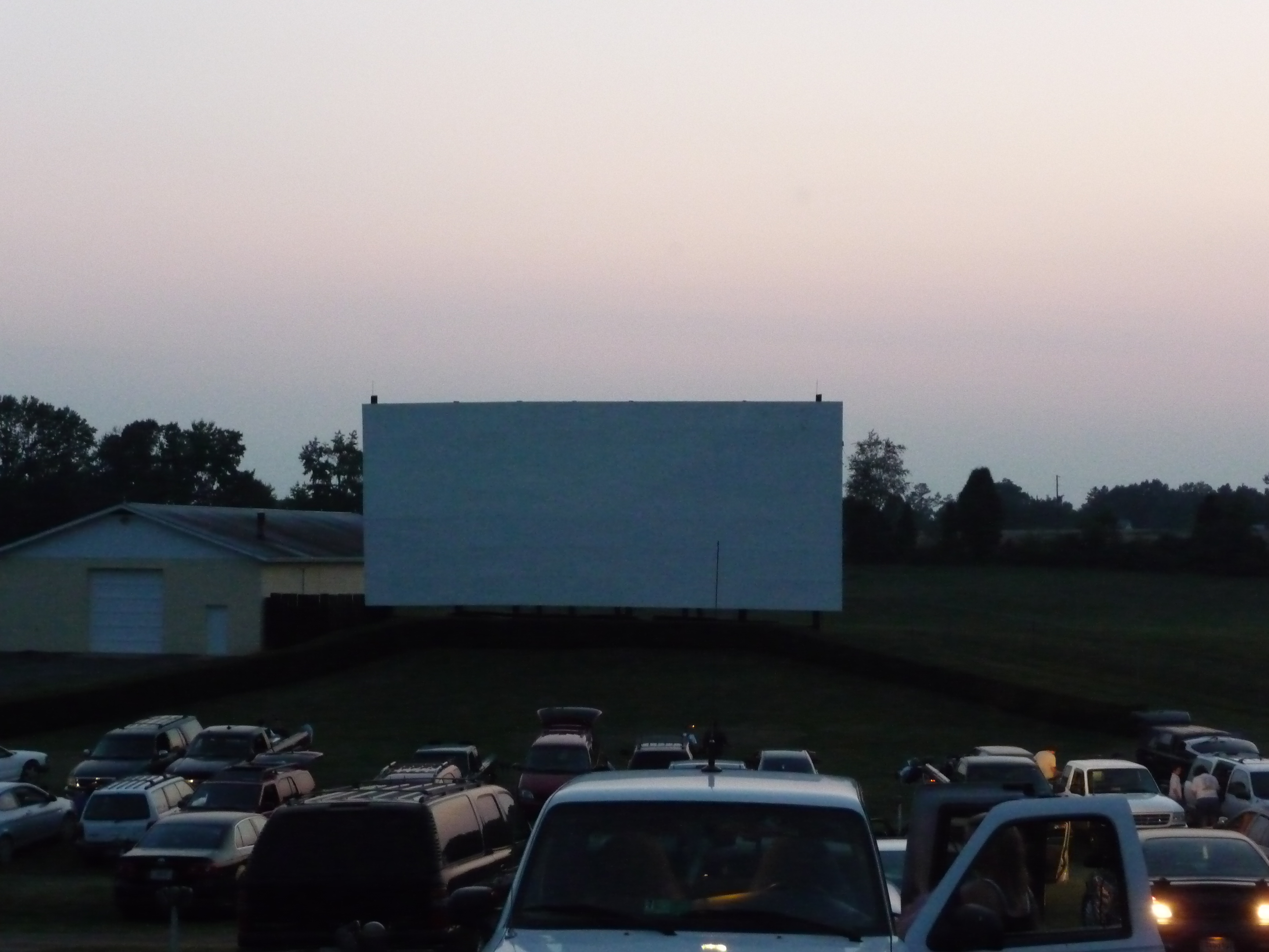 Waiting for the start of the double-feature at the Fork Union drive-in. Show starts at sundown. Drive-ins rock, and we have one of the last ones in America.